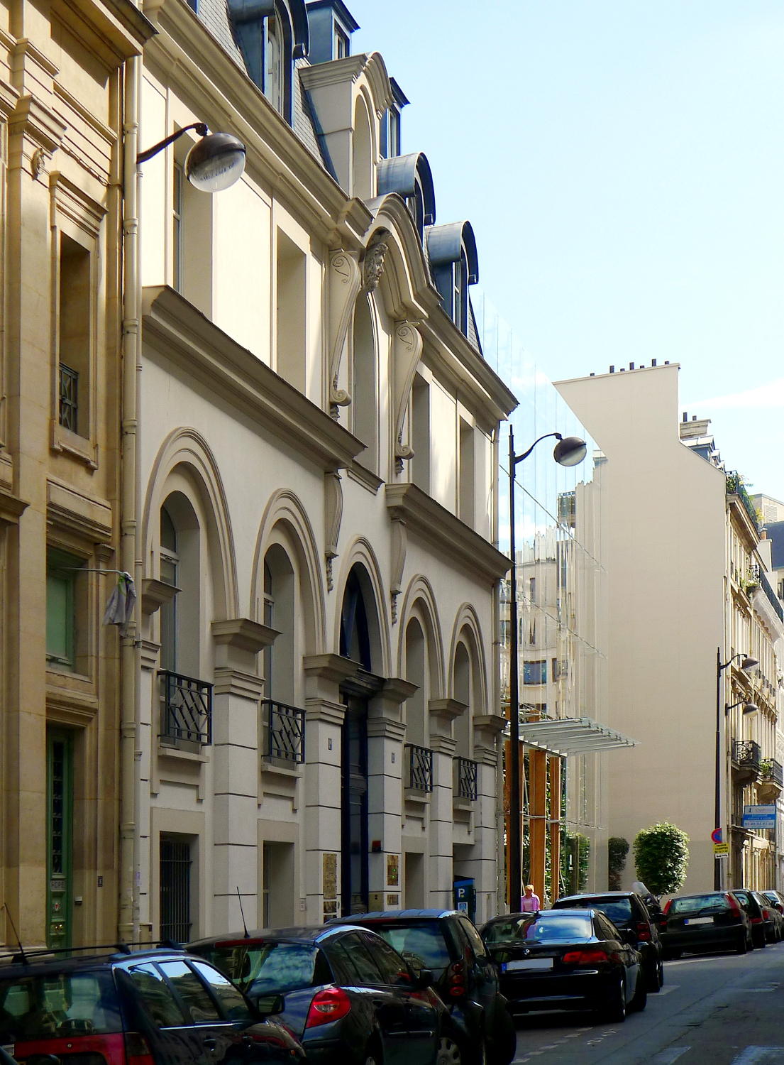 Astorg street (n°12, 12bis) - Paris